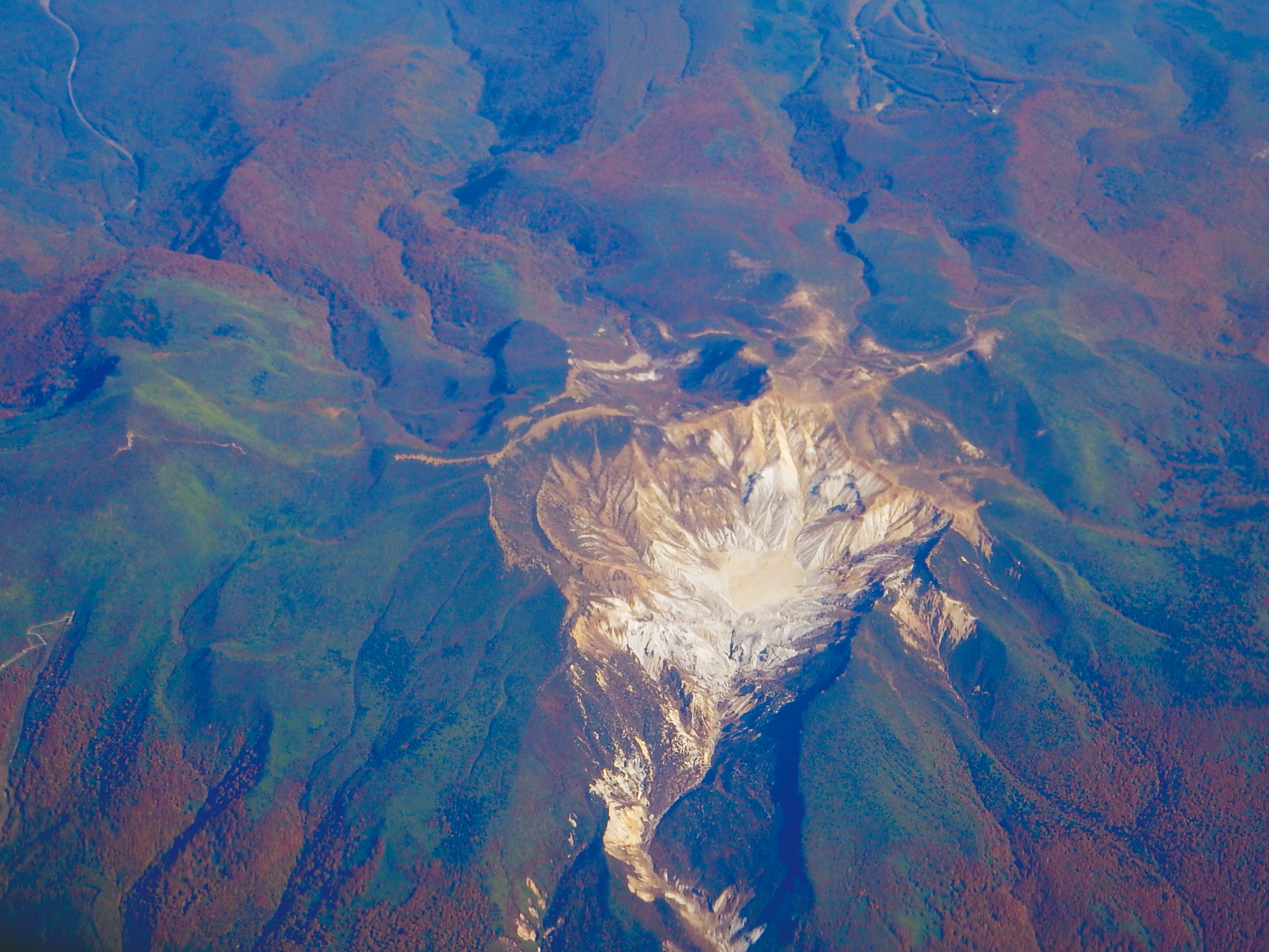 Numanotaira Crater as seen from the west in Mount Adatara.